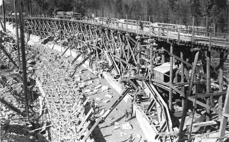 This is an archived 1912 photo of construction for the Big Creek Hydroelectric Project, photographer unknown. The card the photo came with was postmarked at Big Creek, CA on November 31, 1912, which leads one to believe that the construction pictured is of one of the three dams built between 1911 and 1913 to create Huntington Lake.